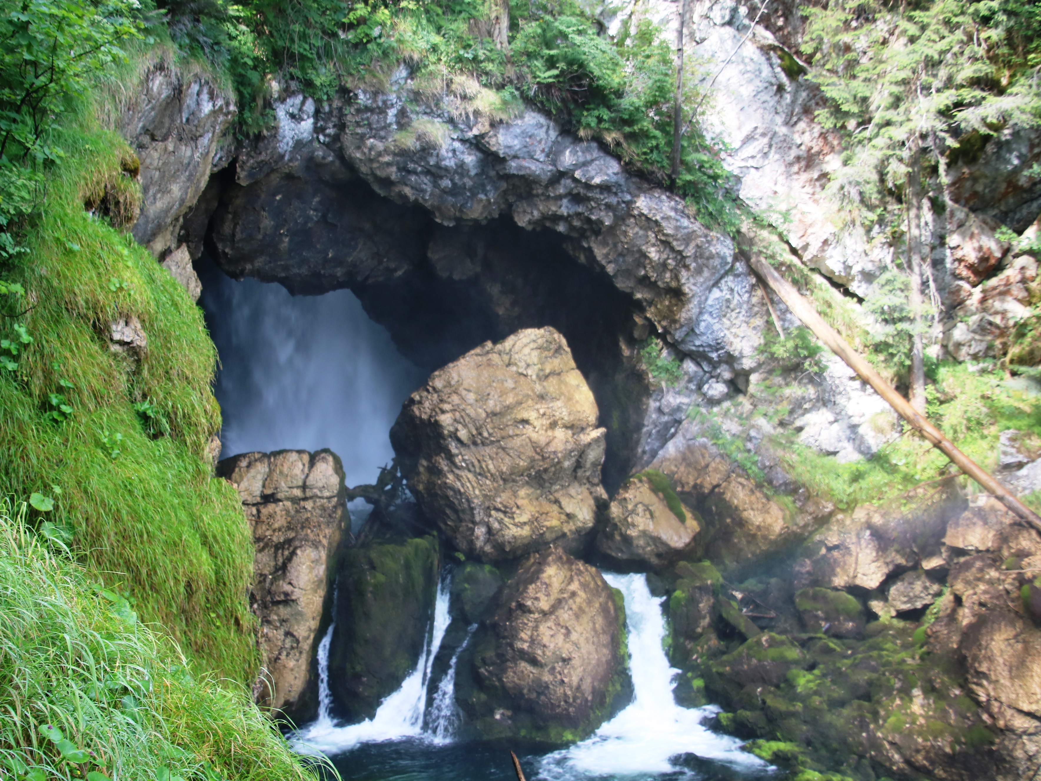 Waterfall in Golling -Province of Salzburg